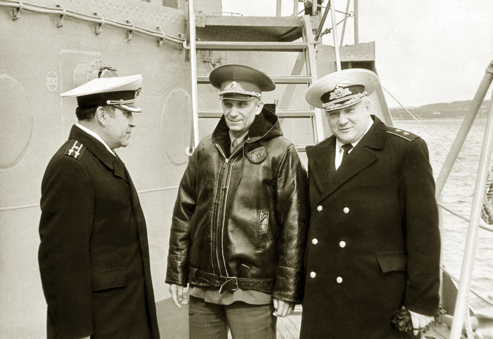 Kliorin A. I. MD. Professor of Pediatrics, Kliorin A. I. MD. Major-general, professor of Pediatrics. Severomorsk, 1980